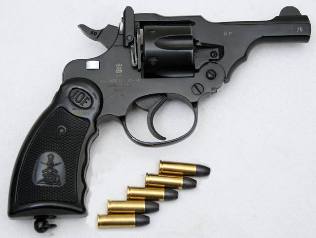 Picture of the IOF 32 Revolver with S&W (L) cartridges